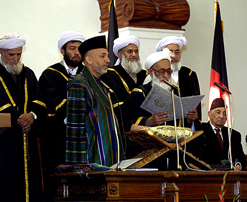 Chief Justice Shinwani from the Supreme Court of Afghanistan (right) administers the Oath of Office for the Presidential Inauguration to Afghanistan President Hamid Karzai at the Presidential Palace in Kabul, Afghanistan, Dec 7, 2004. Defense Dept. photo by U.S. Air Force Master Sgt. James M. Bowman